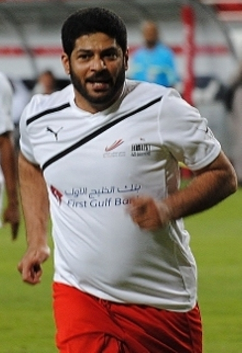 uae ex player